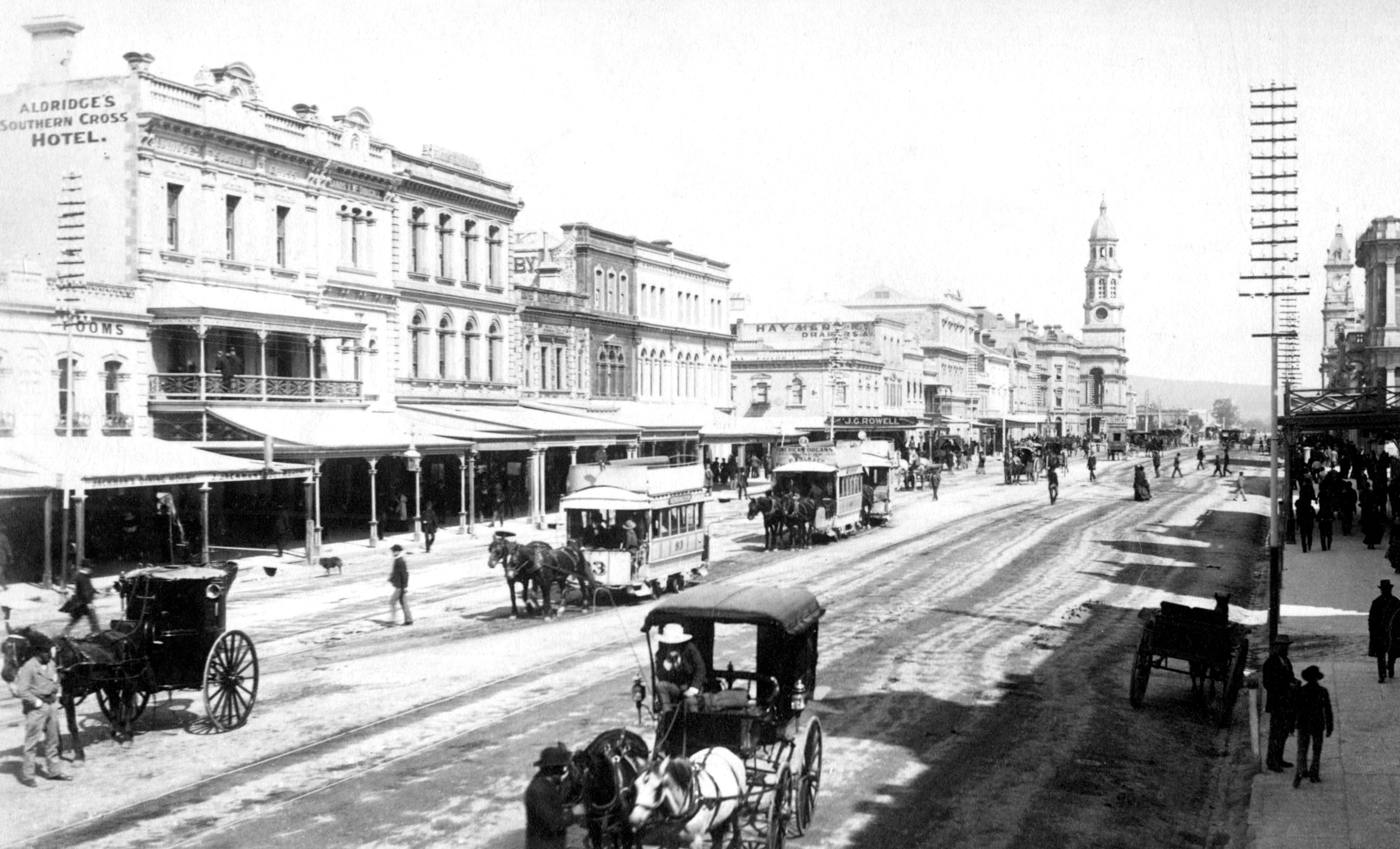 Street scene -- King William Street, Adelaide, circa 1885. Taken from the corner of Hindley Street and King William Street, looking south, it shows horse drawn-cabs waiting in the street and three horse trams on tracks down the middle. The building with a sign "J.G. Rowell" is on the corner of Grenfell Street. In the distance is the tower of the Adelaide town hall. (The two white lines leading from the bottom left corner of the image have been drawn in to represent tram tracks, but the dark strips over which they are drawn are a wet road surface left by water carts used to suppress dust; the second track is seen between the trams and the shops.)